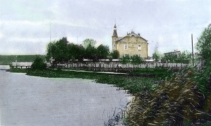 Restaurant "Lighthouse", Tegelort, Berlin